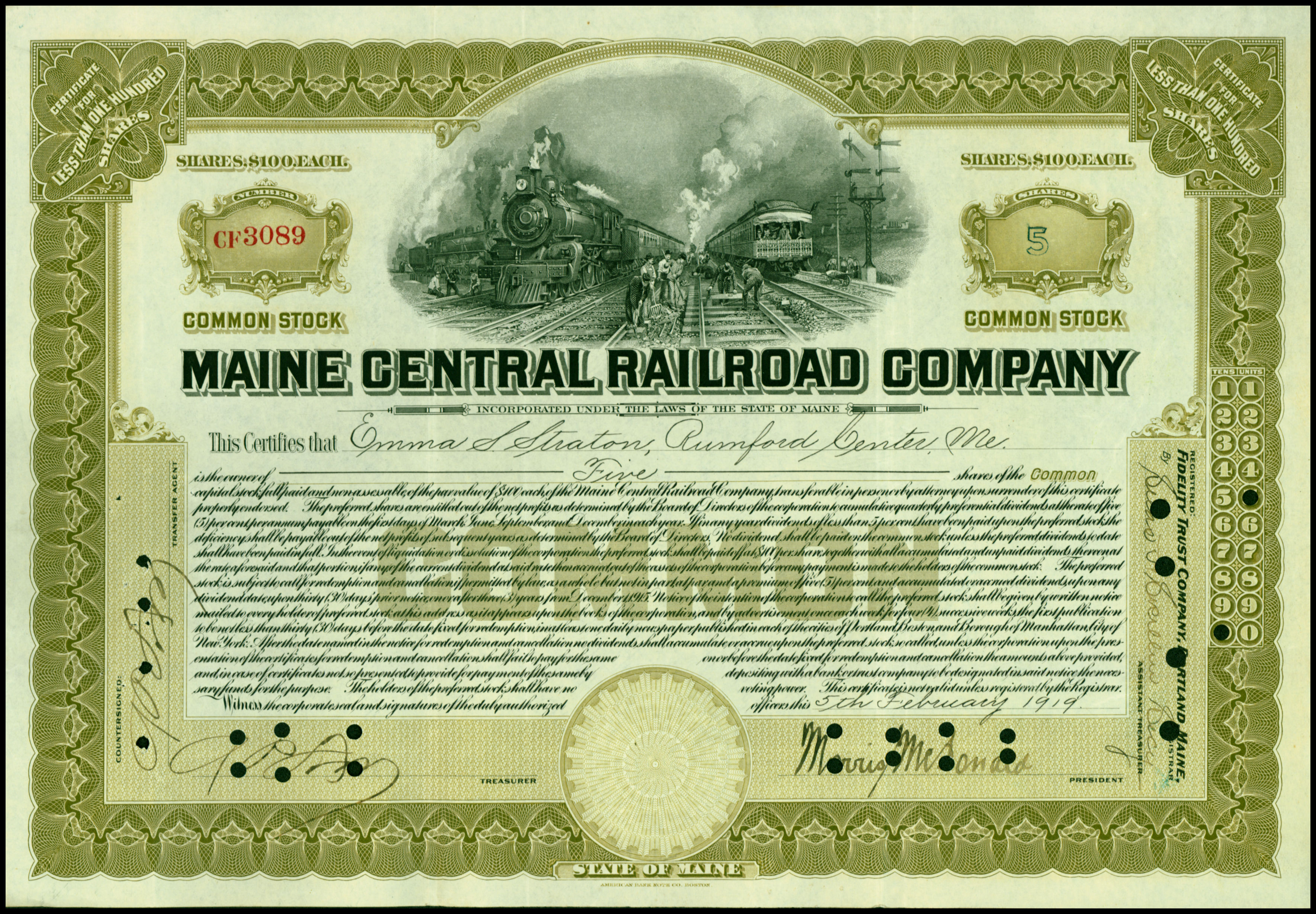 Share of the Maine Central Railroad Company, issued 5. February 1919